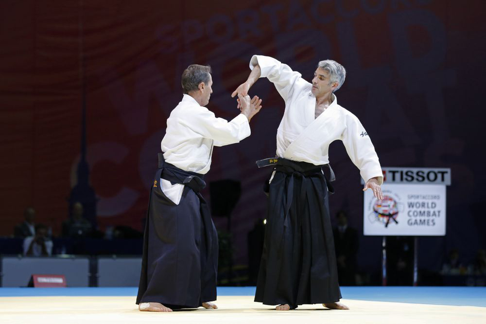 Tissier Shihan applying sankyō on his uke, Bruno Gonzalez